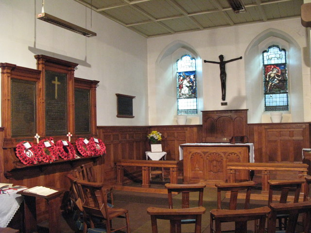 St. Martin's Church - Soldiers' Chapel. See 1582099. The windows were added after the first World War and are the only designs not by Burne-Jones.